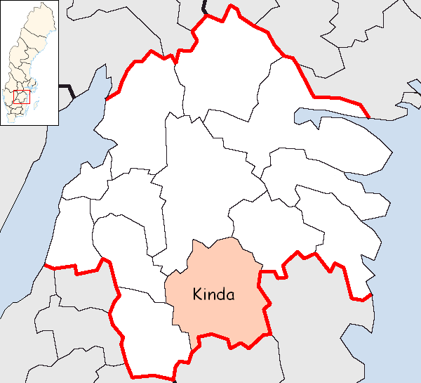 Kinda Municipality in Östergötland County Designed by me. Mere outlines are a PD source from